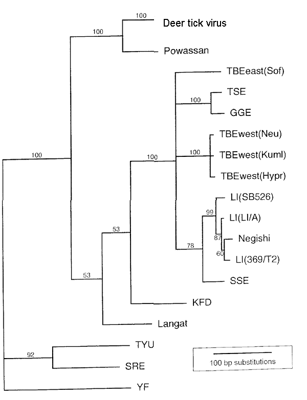 Maximum parsimony phylogram indicating the relationship of deer tick virus to other tick-borne encephalitis group viruses. Values above branches indicate bootstrapped confidence values. Branch lengths are proportional to percent similarity in sequence. TBE, tick borne encephalitis; TSE, Turkish sheep encephalitis; GGE, Greek goat encephalitis; LI, louping ill virus; SSE, Spanish sheep encephalitis; KFD, Kyasanur Forest disease virus; TYU, Tyuleniy virus; SRE, Saumarez Reef virus. The topology of the phylogram that was independently derived from NS-5 does not differ from that of env and is not presented.